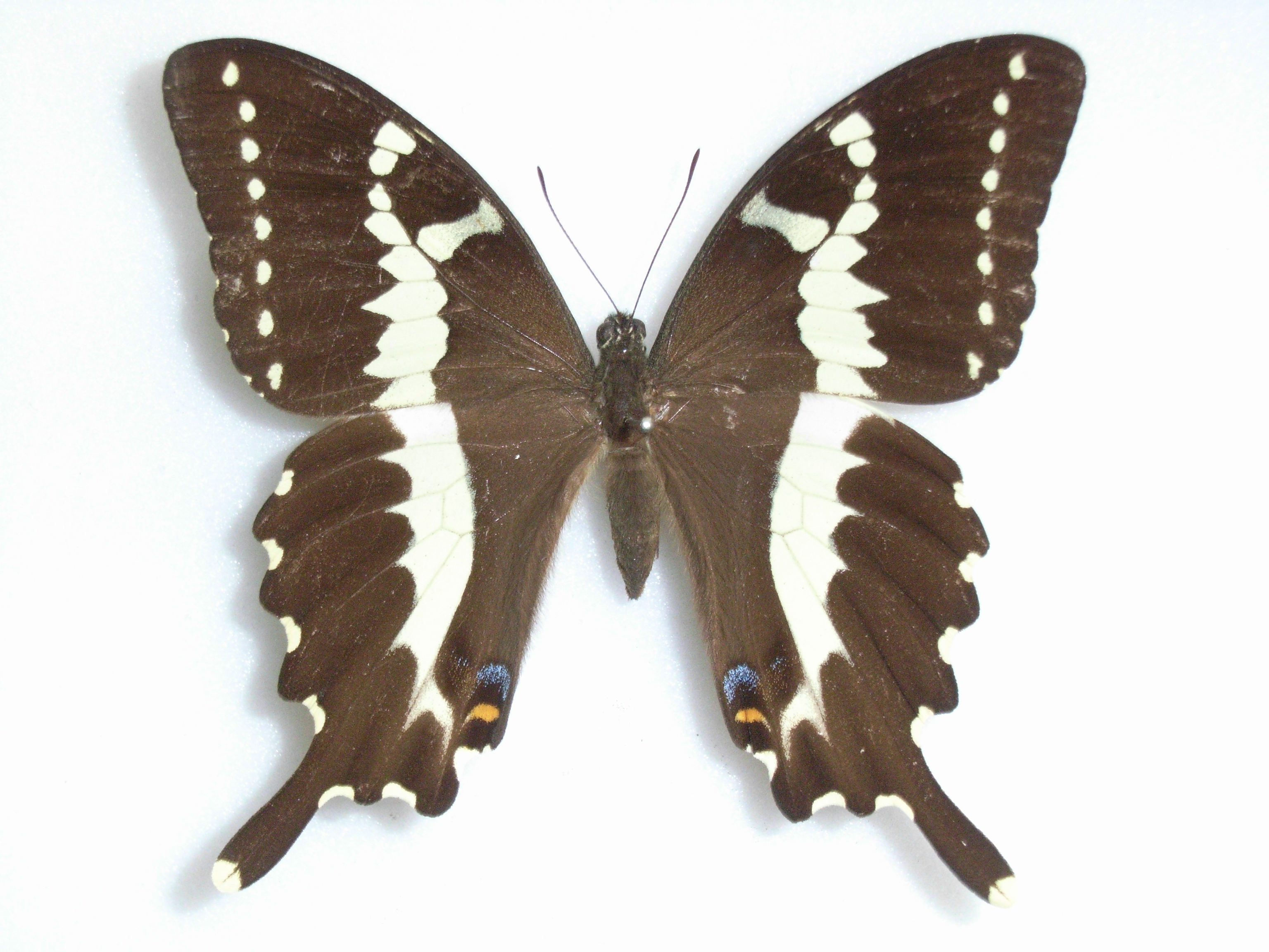 Papilio delalandei Godart,[1824]Female.JPG